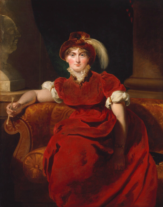 Portrait of Caroline of Brunswick (1768-1821)